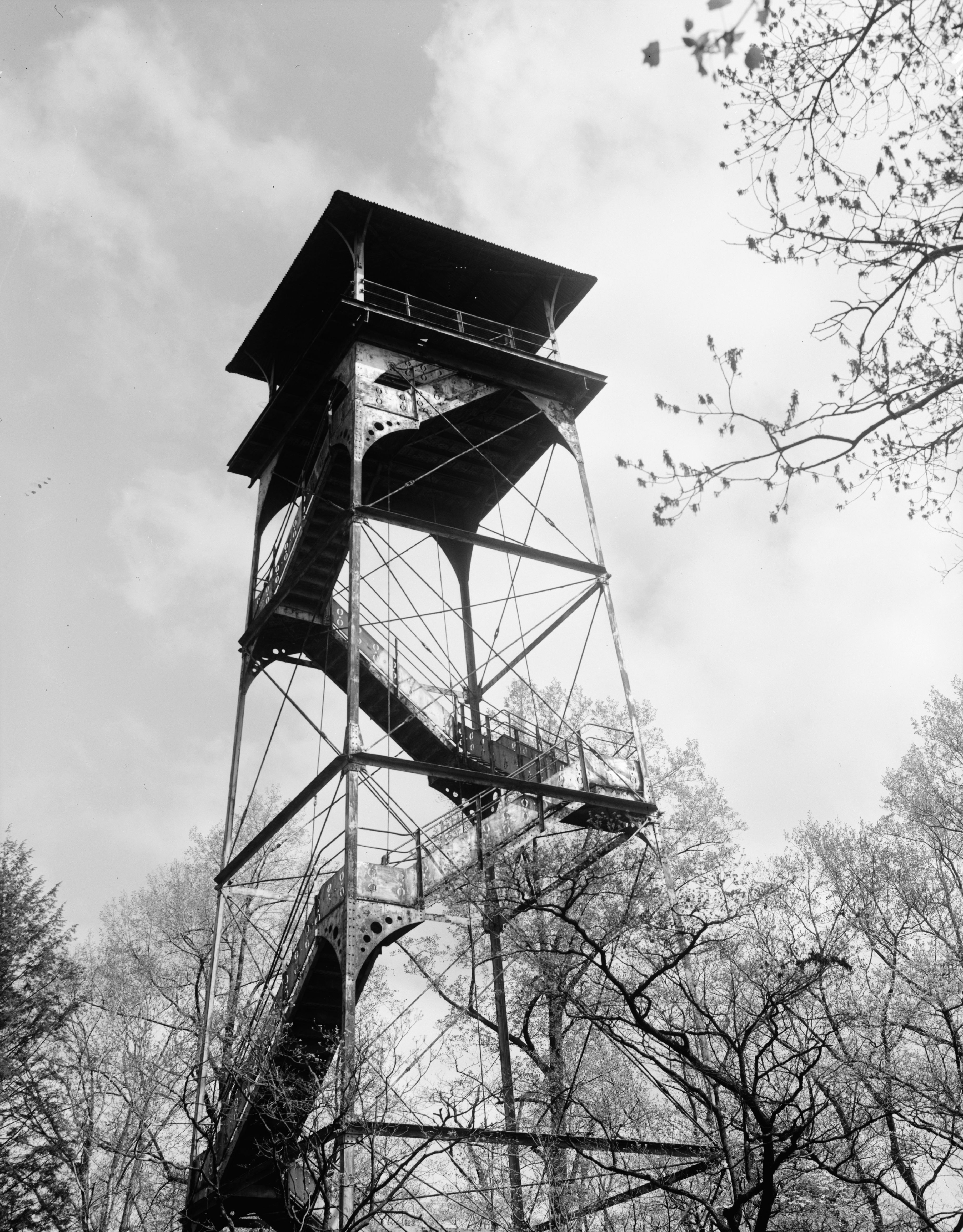 Mount Joy Observation Tower, Valley Forge National Historical Park, 1986. Original caption: 4. VIEW OF TOWER, LOOKING NORTH NORTHEAST